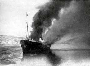 The Norwegian Hurtigruten steamship Dronning Maud on fire and drifting after having been hit by German bombs.